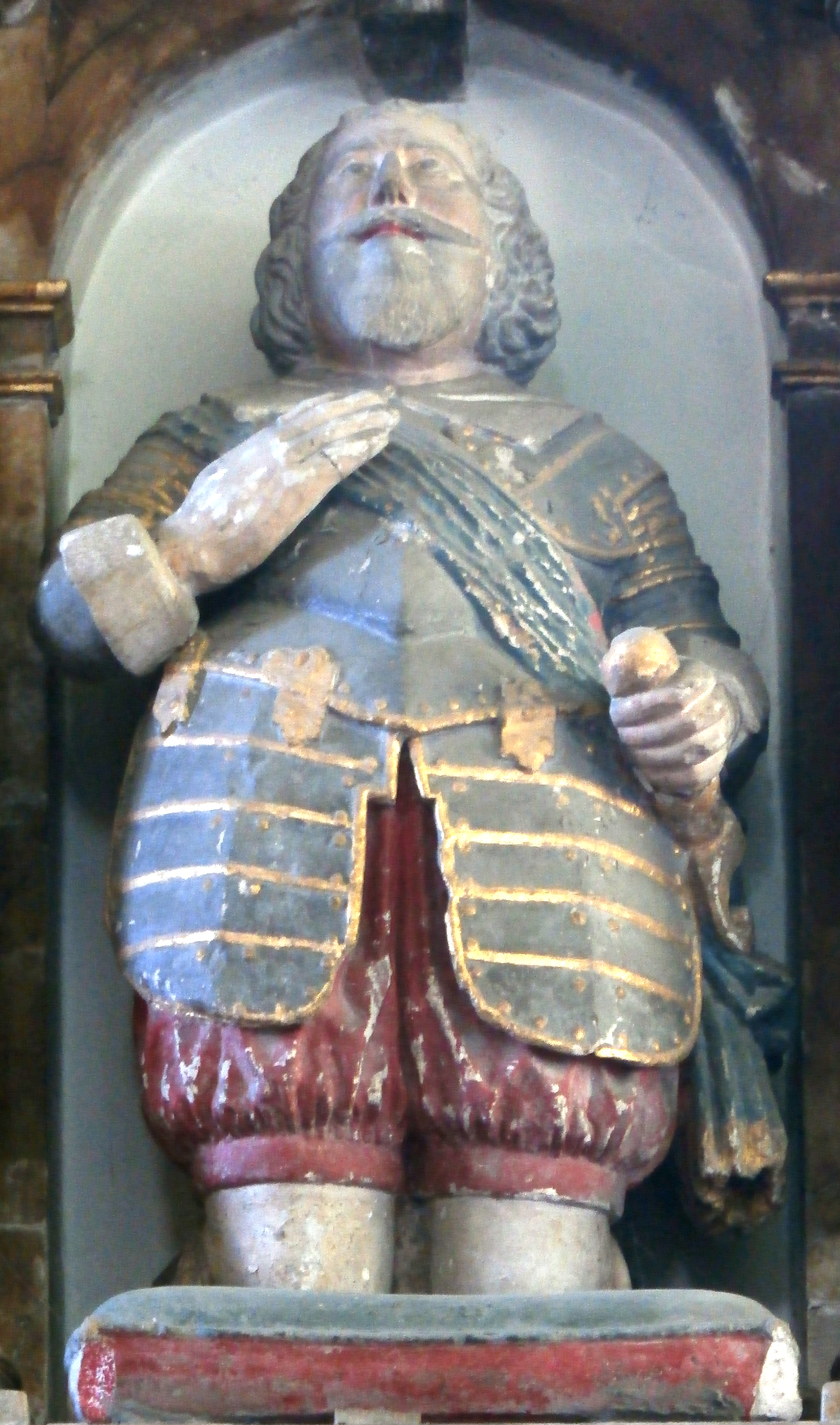 Effigy of Sir William Strode (d.1637), detail from his mural monument in StMary's Church, Plympton, Devon